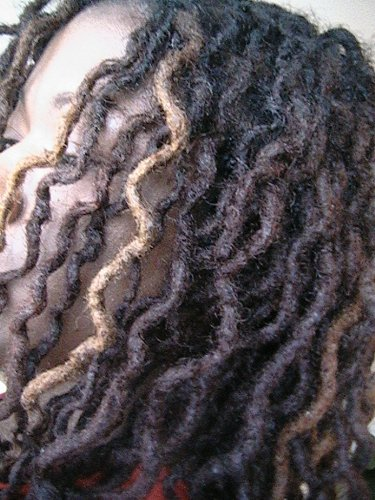 Dreadlocks waves created when three lock-strands are braided and left over night